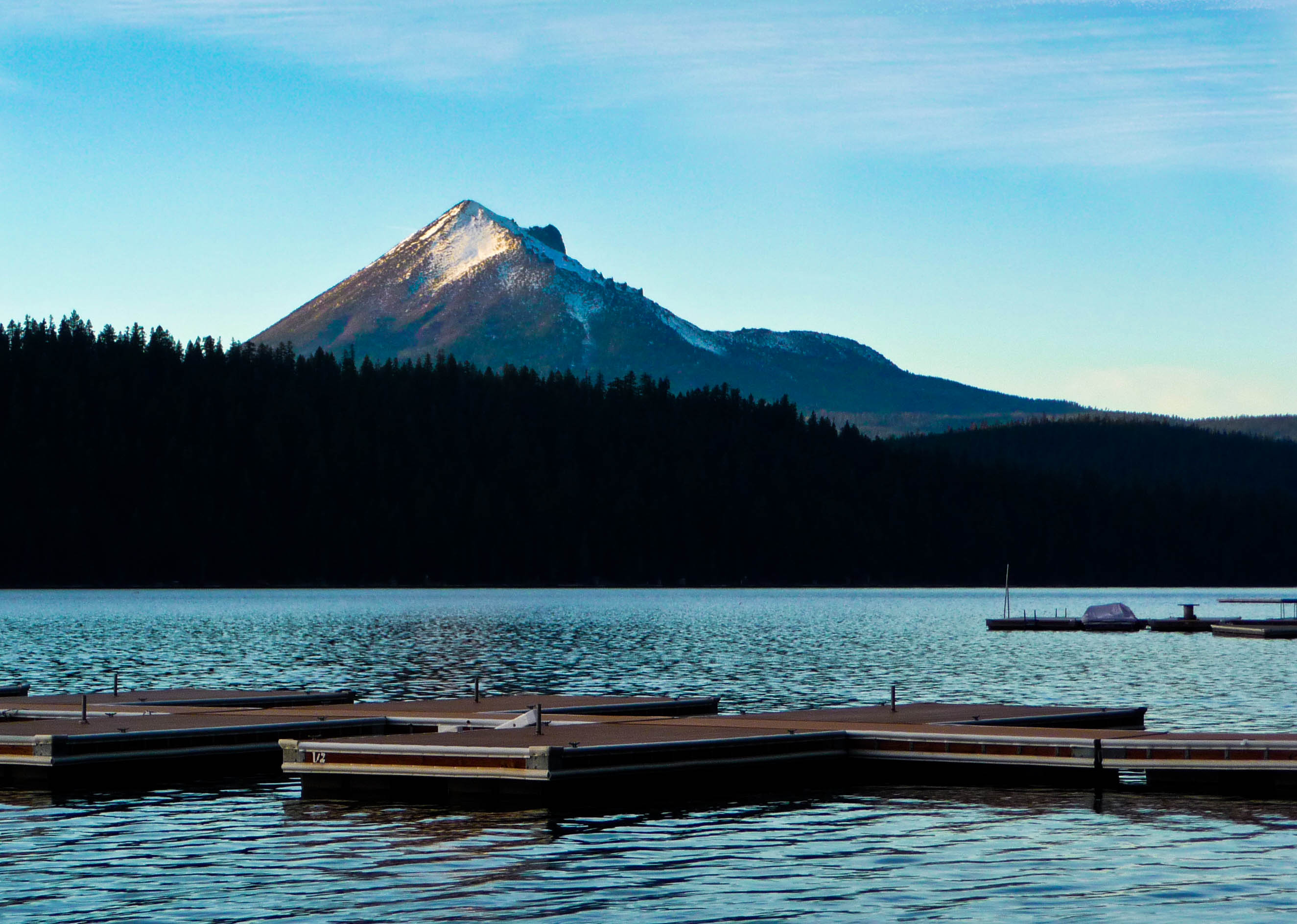 Boat dock at Lake of the Woods with Mount McLaughlin in the background, Klamath County, Oregon, 2008